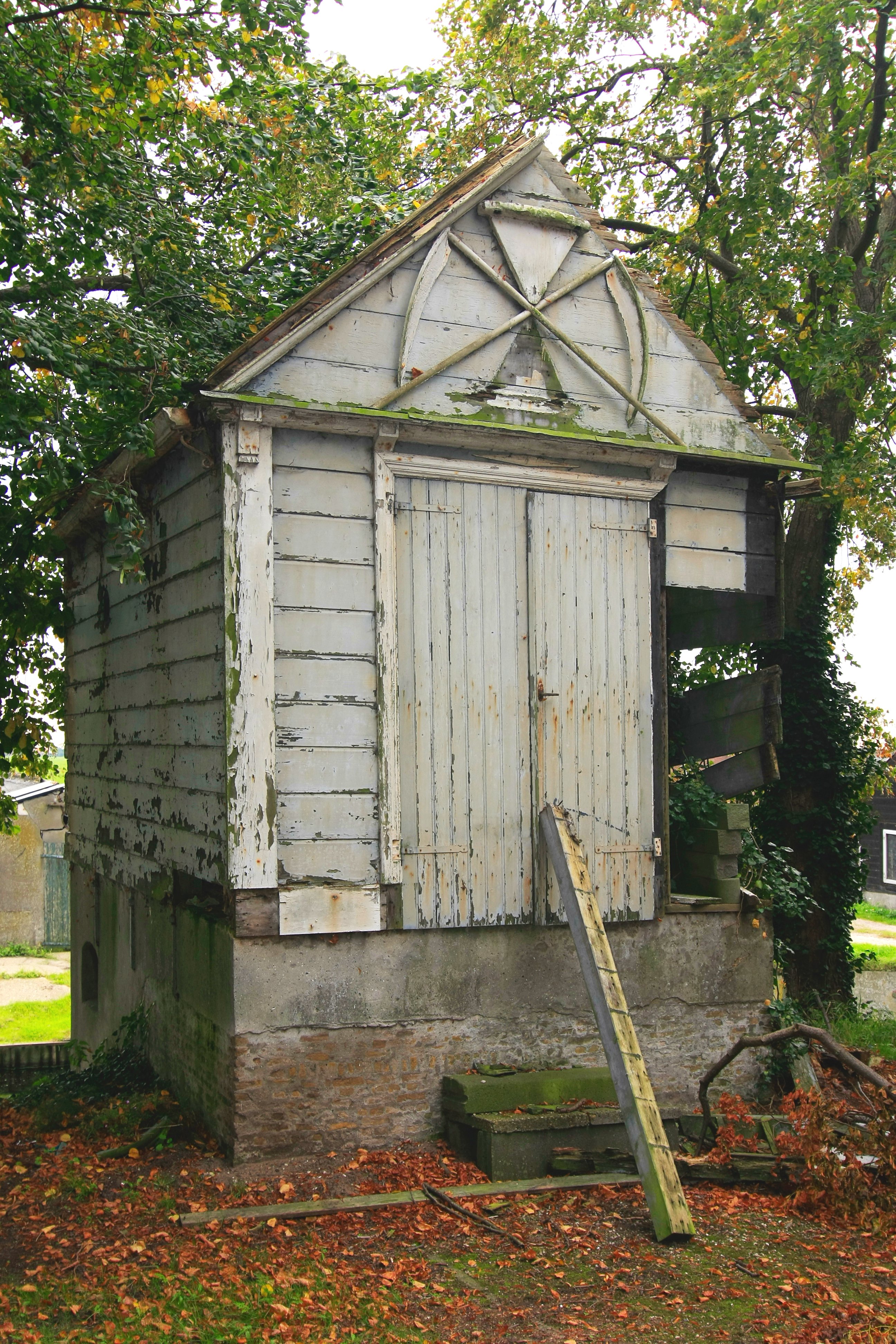 A small house on a cemetry where the death are shown before they are put in the ground. It's the cemetry from Ouderkerk aan de IJssel.